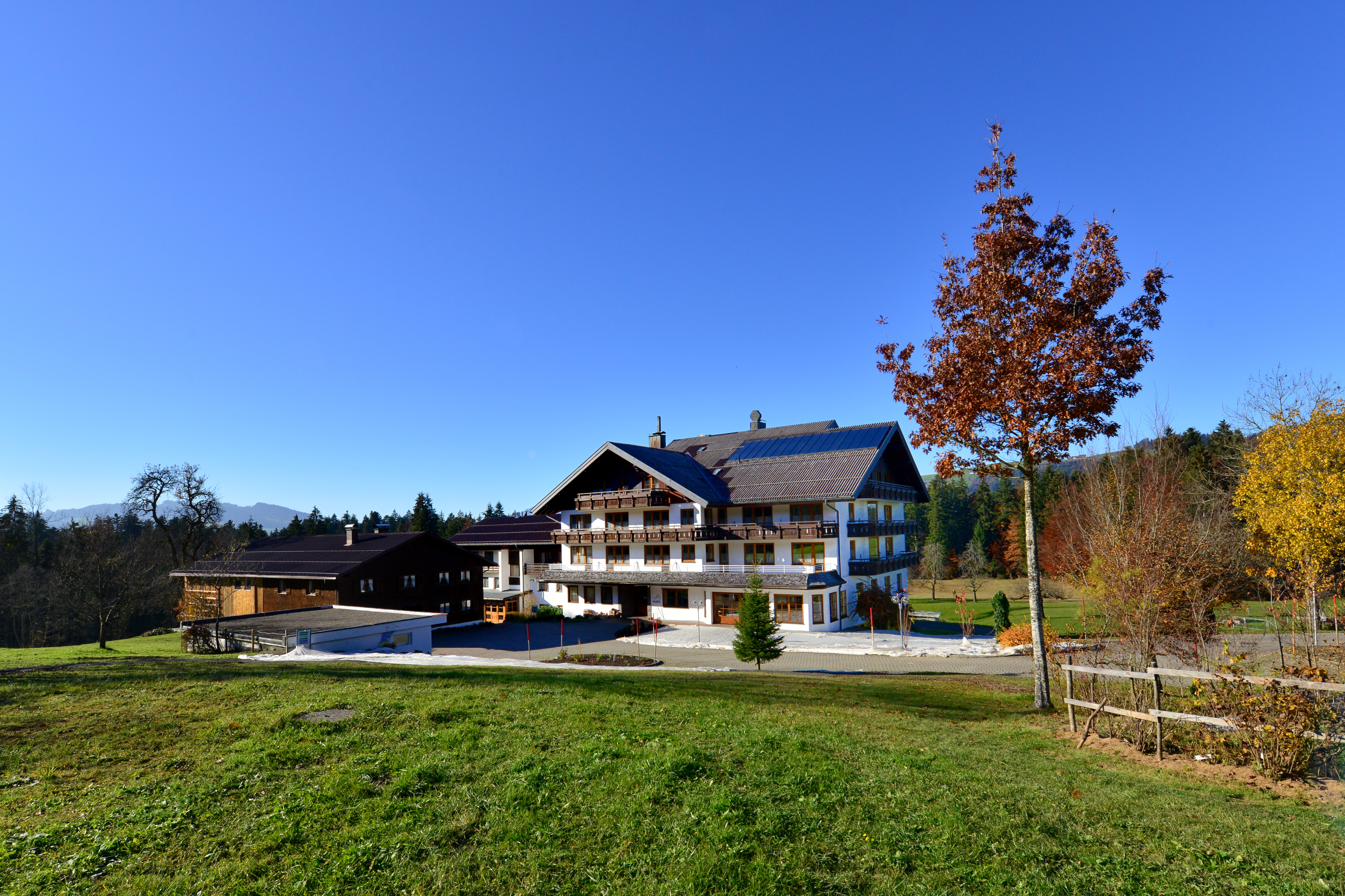 Spa Rossbad in Krumbach, Vorarlberg, Austria. Hotel.